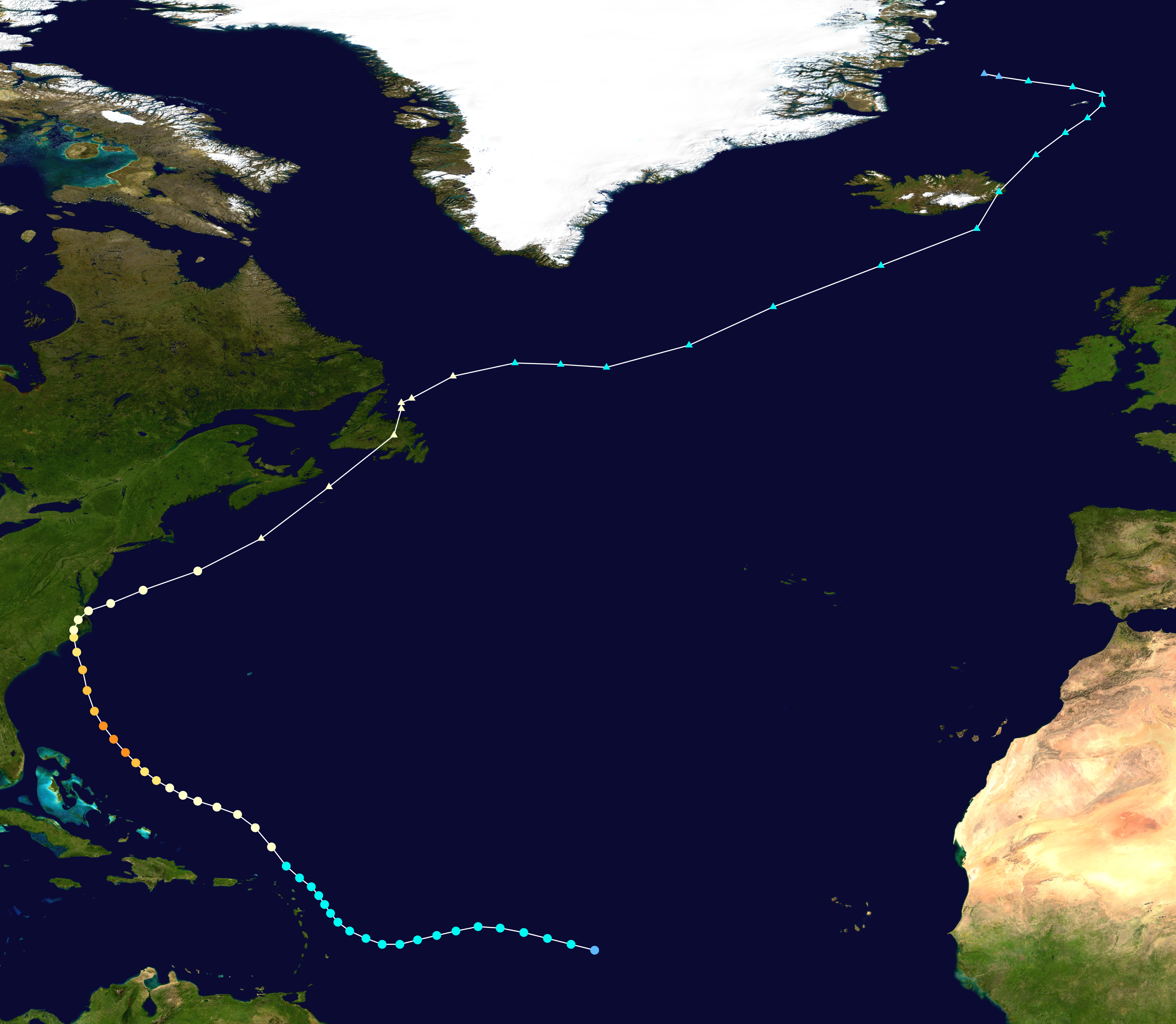 Track map of Hurricane Ione of the 1955 Atlantic hurricane season. The points show the location of the storm at 6-hour intervals. The colour represents the storm's maximum sustained wind speeds as classified in the Saffir–Simpson hurricane wind scale (see below), and the shape of the data points represent the nature of the storm, according to the legend below. Saffir–Simpson hurricane wind scale Tropical depression≤38 mph≤62 km/h Category 3111–129 mph178–208 km/h Tropical storm39–73 mph63–118 km/h Category 4130–156 mph209–251 km/h Category 174–95 mph119–153 km/h Category 5≥157 mph≥252 km/h Category 296–110 mph154–177 km/h Unknown Storm typeTropical cycloneSubtropical cycloneExtratropical cyclone / Remnant low / Tropical disturbance